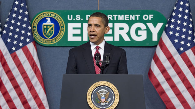 President Barack Obama speaks at the Department of Energy.